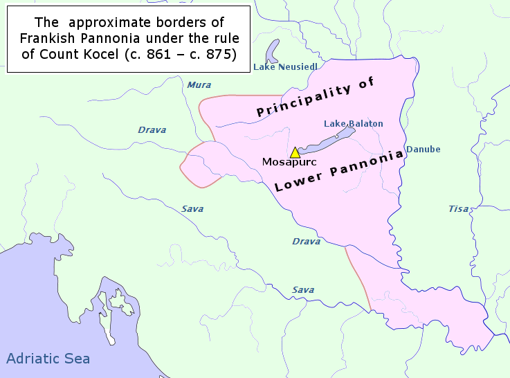 Count Kocel's territories in the 9th century; (For approximate borders look at Inzko Valentin (1978): Zgodovina Slovencev do leta 1918. Mohorjeva založba, Celovec, page: 34; Čepič Zdenko et al. (1979): Zgodovina Slovencev. Cankarjeva založba, Ljubljana 1979, page: 127, 133; Peršič Janez et al. (1983): Stare kulture. Mladinska knjiga, Ljubljana, page: 144;)